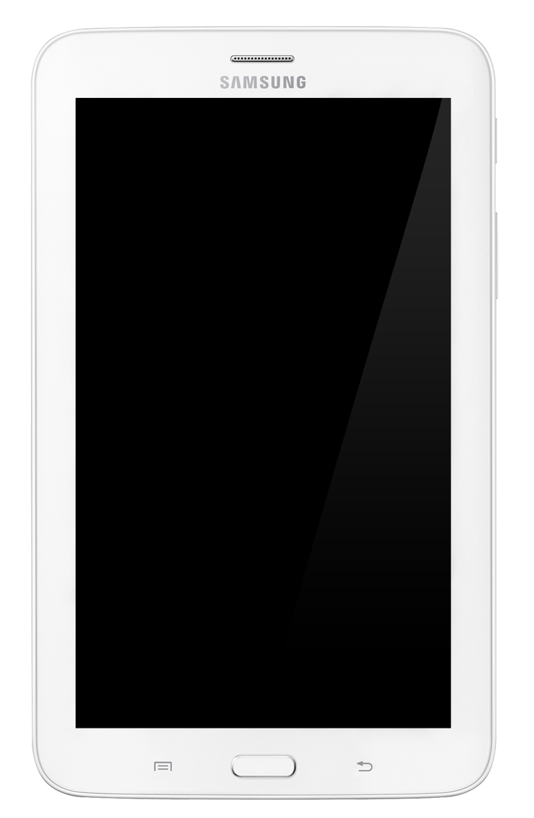 Samsung Galaxy Tab 3 Lite 7.0 render